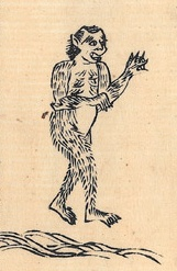 Kawatarō (aka Kappa) from the Wakan Sansaizue, 和漢三才図会, circa 1713, a 105-volume encyclopedia compield by Terajima Ryōan 寺島良安.